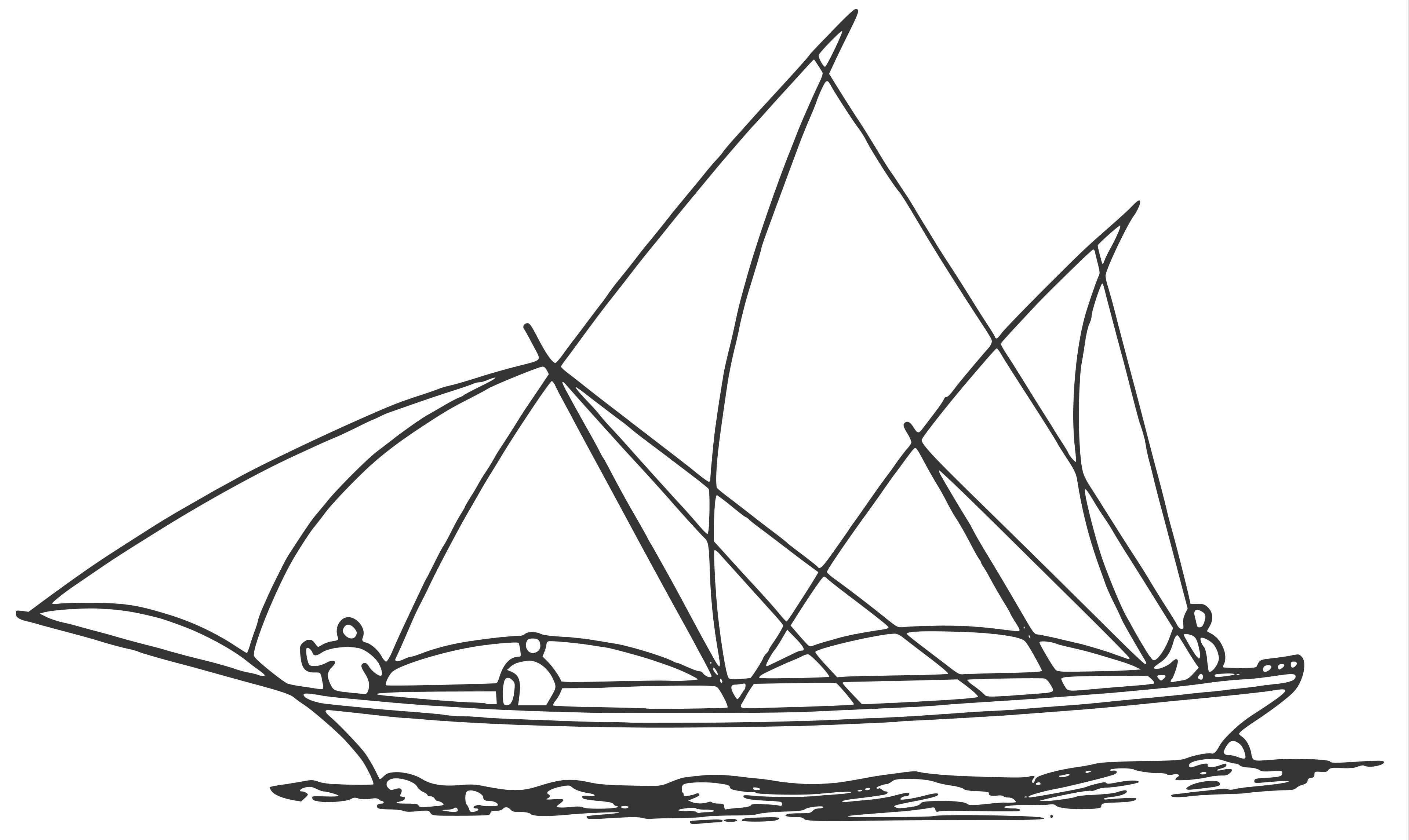 A passenger Sampan Panjang from about 1860: Drawn from a boat shown in Gray's engraving of the Singapore waterfront, which dated from 1861. The engraving is currently at Raffles Museum Collection. This vector drawing is a reproduction from a drawing by C. A. Gibson-Hill.